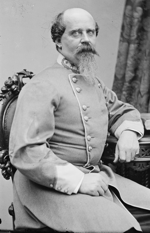 Portrait of Brig. Gen. Beverly H. Robertson, officer of the Confederate Army.